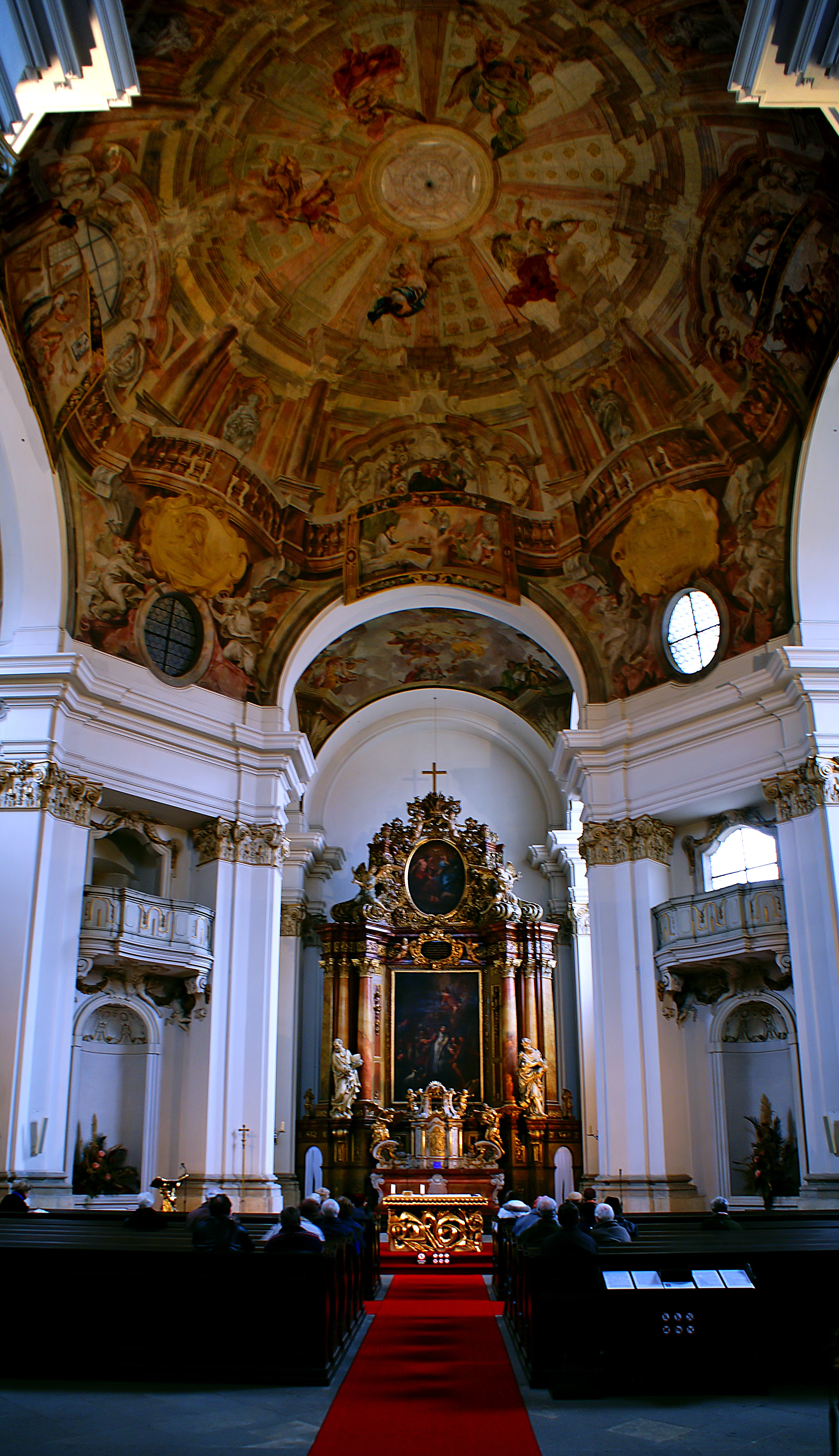 Church of st. John Nepomuk, Prague